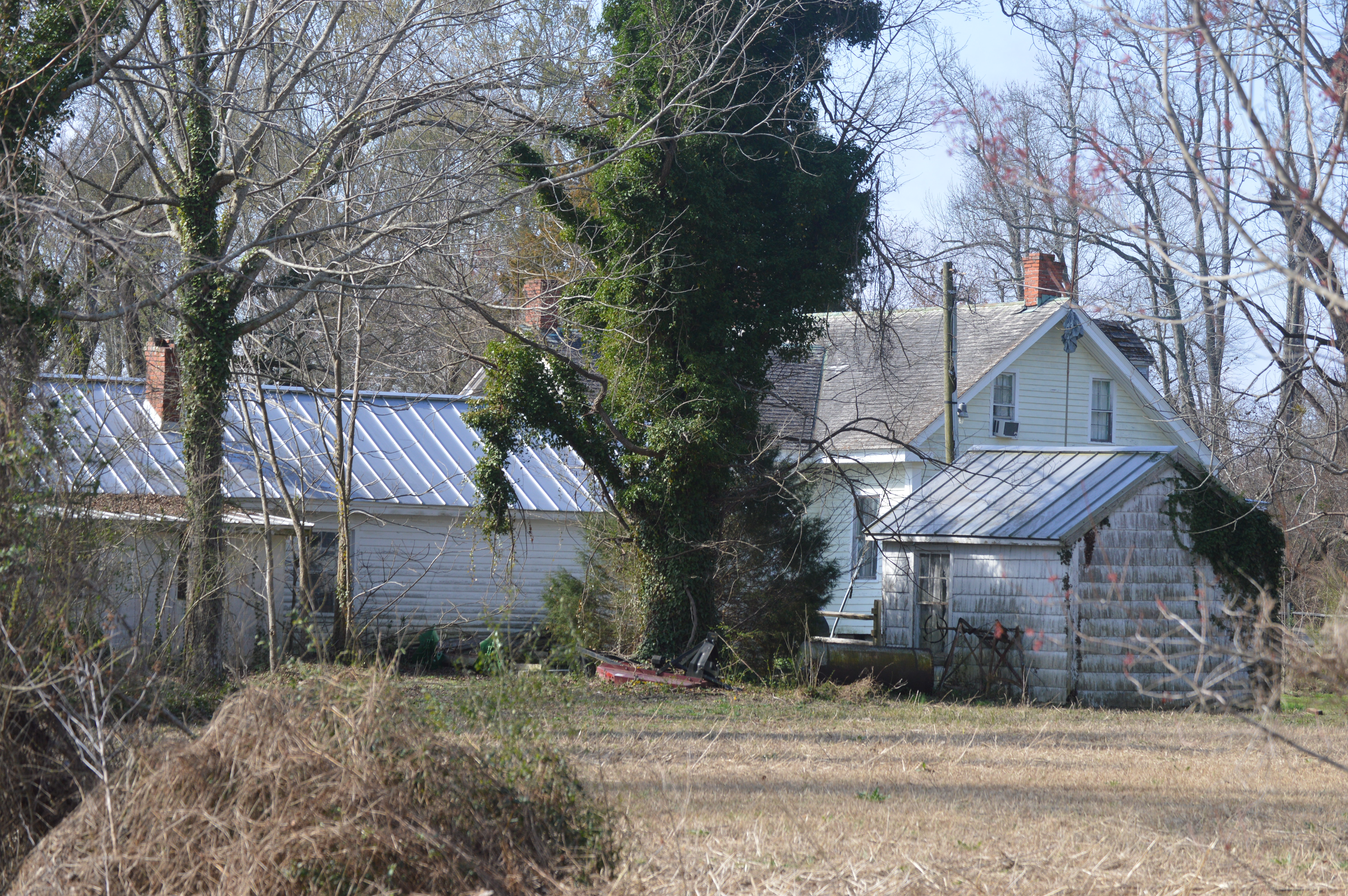 Northern side of Wallaceton, located at the end of Glencoe Street along the Dismal Swamp Canal in Chesapeake, Virginia, United States. Built in 1853, it is listed on the National Register of Historic Places.